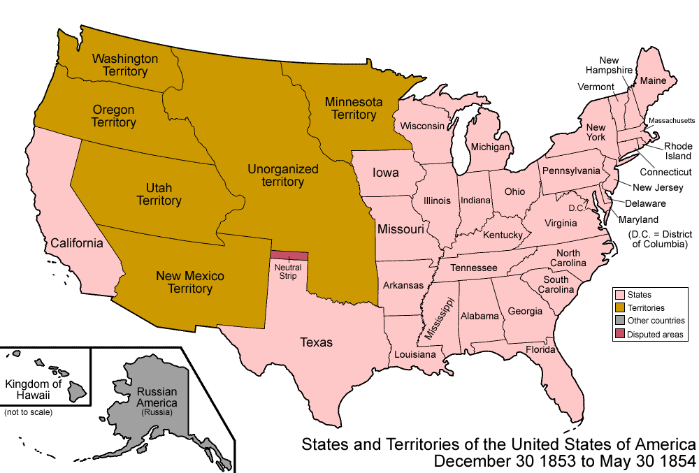 Map of the states and territories of the United States as it was from December 1853 to 1854. On December 30 1853, the Gadsden Purchase added a small part of Mexico to New Mexico Territory. On May 30 1854, Nebraska Territory and Kansas Territory was organized; the remaining portion of unorganized territory became known colloquially as "Indian territory".